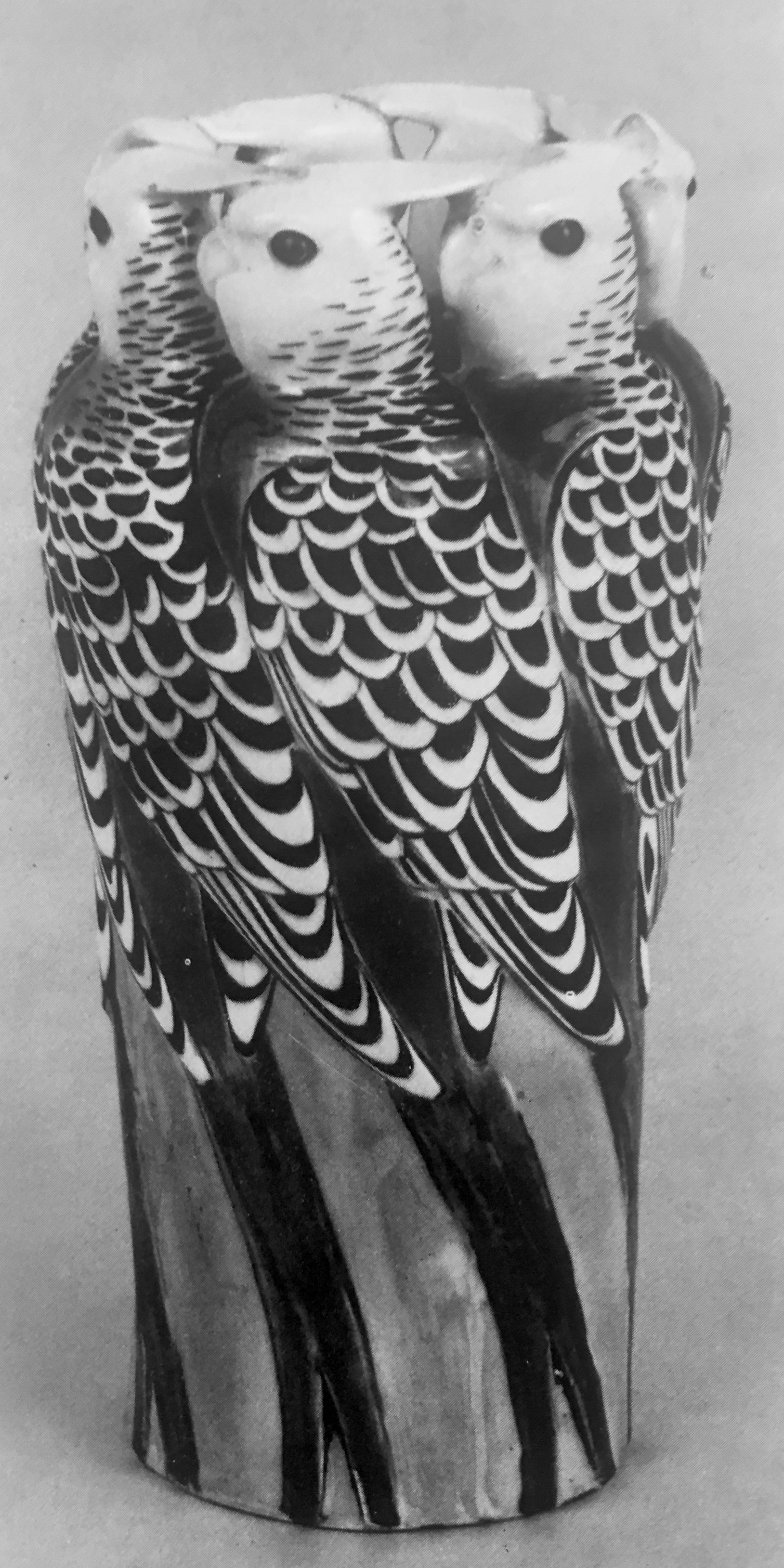 Wiener Kunstkeramische Werkstätte Vase